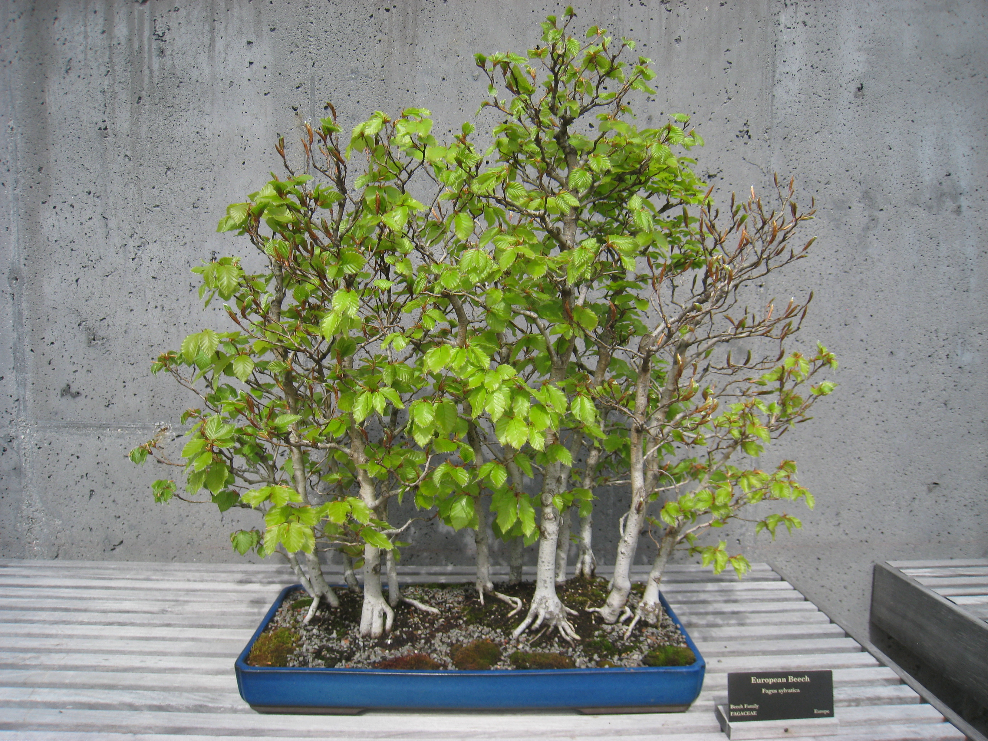 North Carolina Arboretum, Asheville, North Carolina, USA. Bonsai Fagus sylvatica.